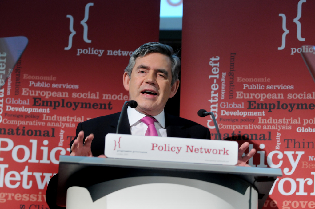 Gordon Brown at the Policy Network Progressive Governance Conference.